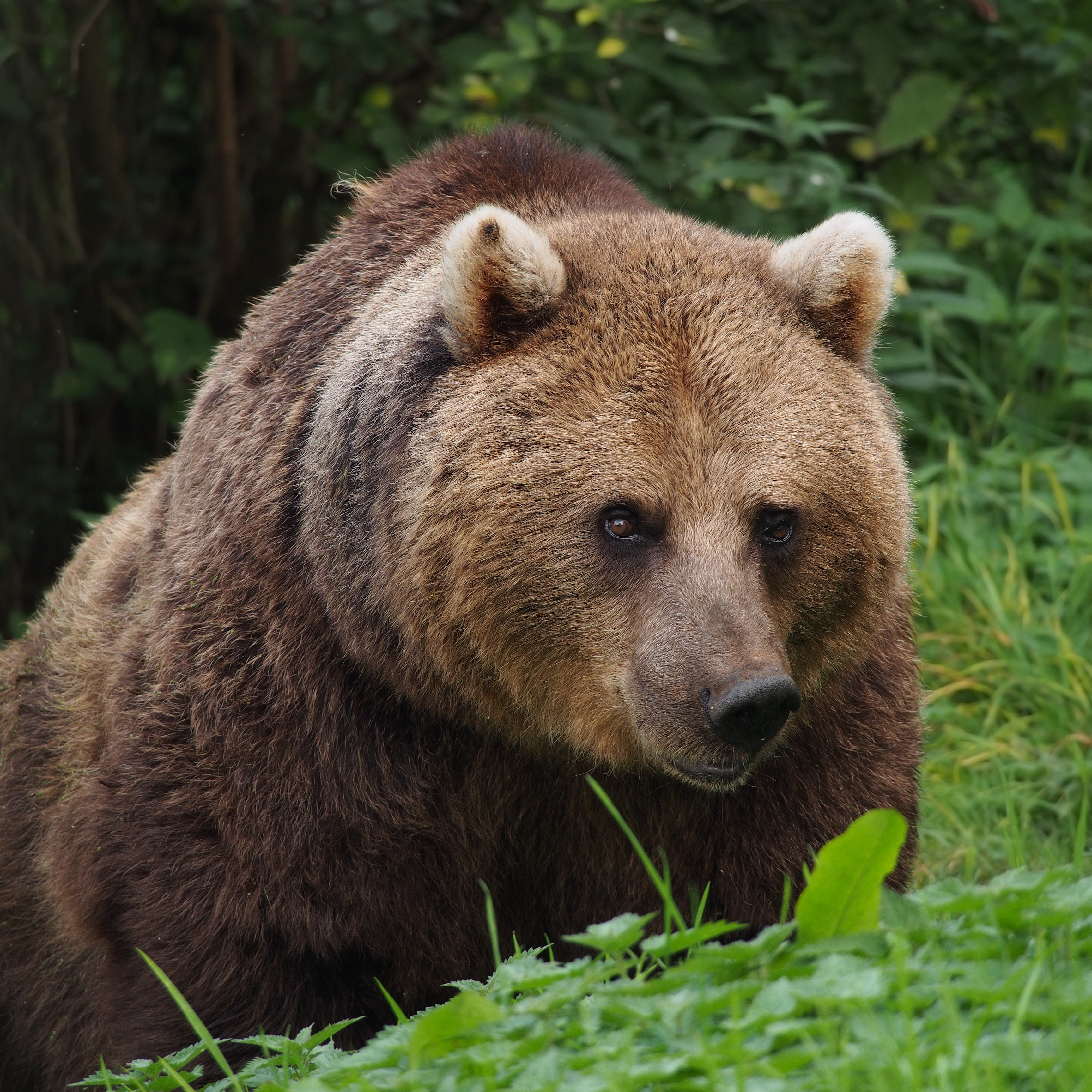 European Brown Bear (Ursus arctos arctos) at Whipsnade Zoo.